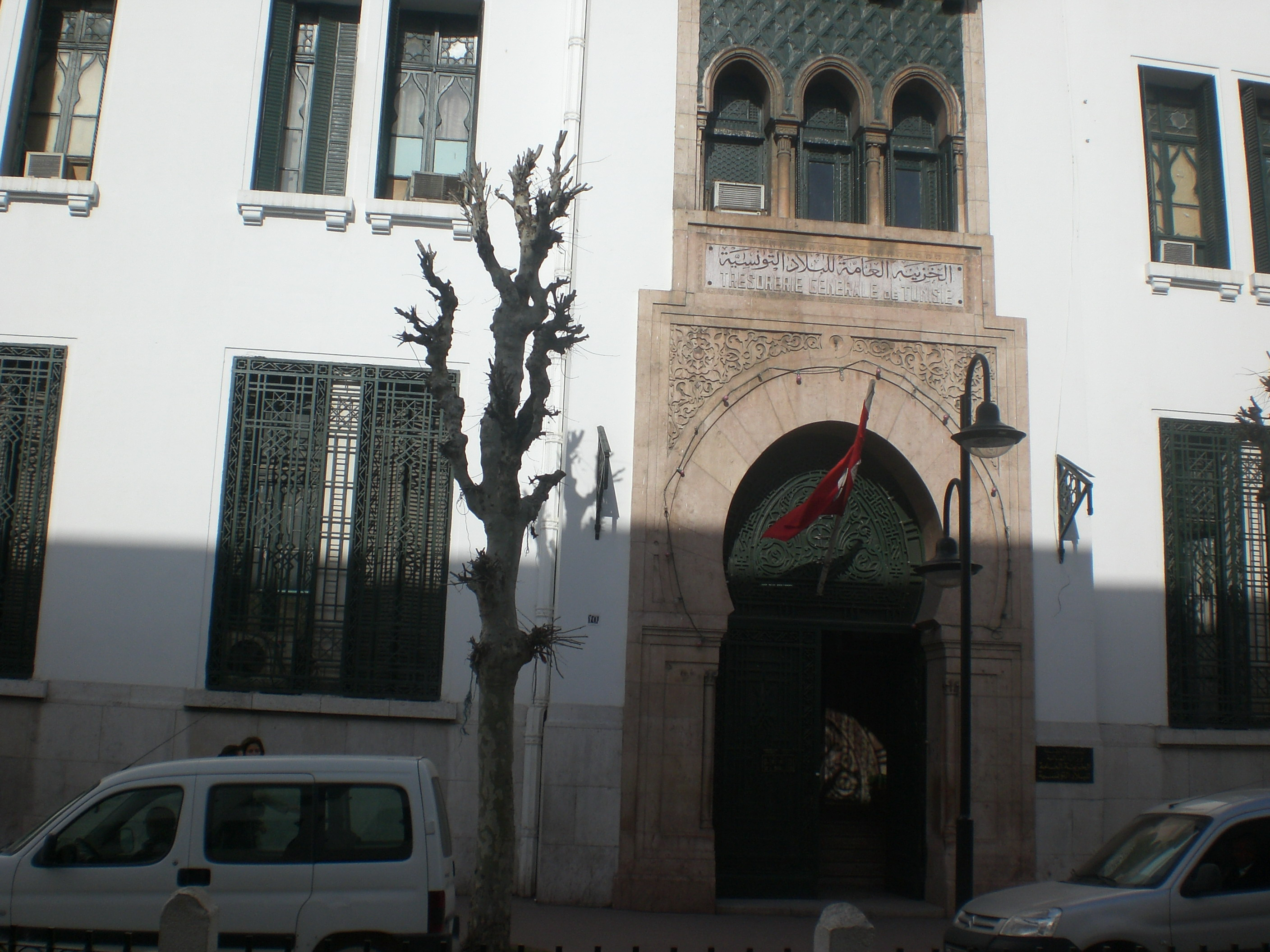 Building of the Tunisian tresorery